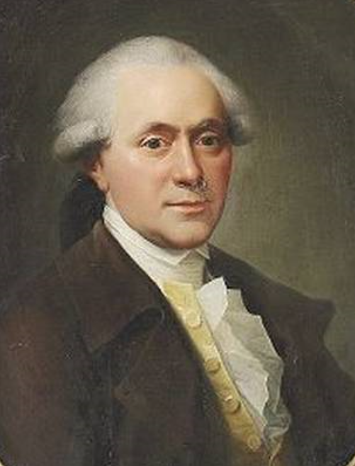 Detail of portrait painting by Jens Juel of Baron Heinrich von Bolten (1734-1790)